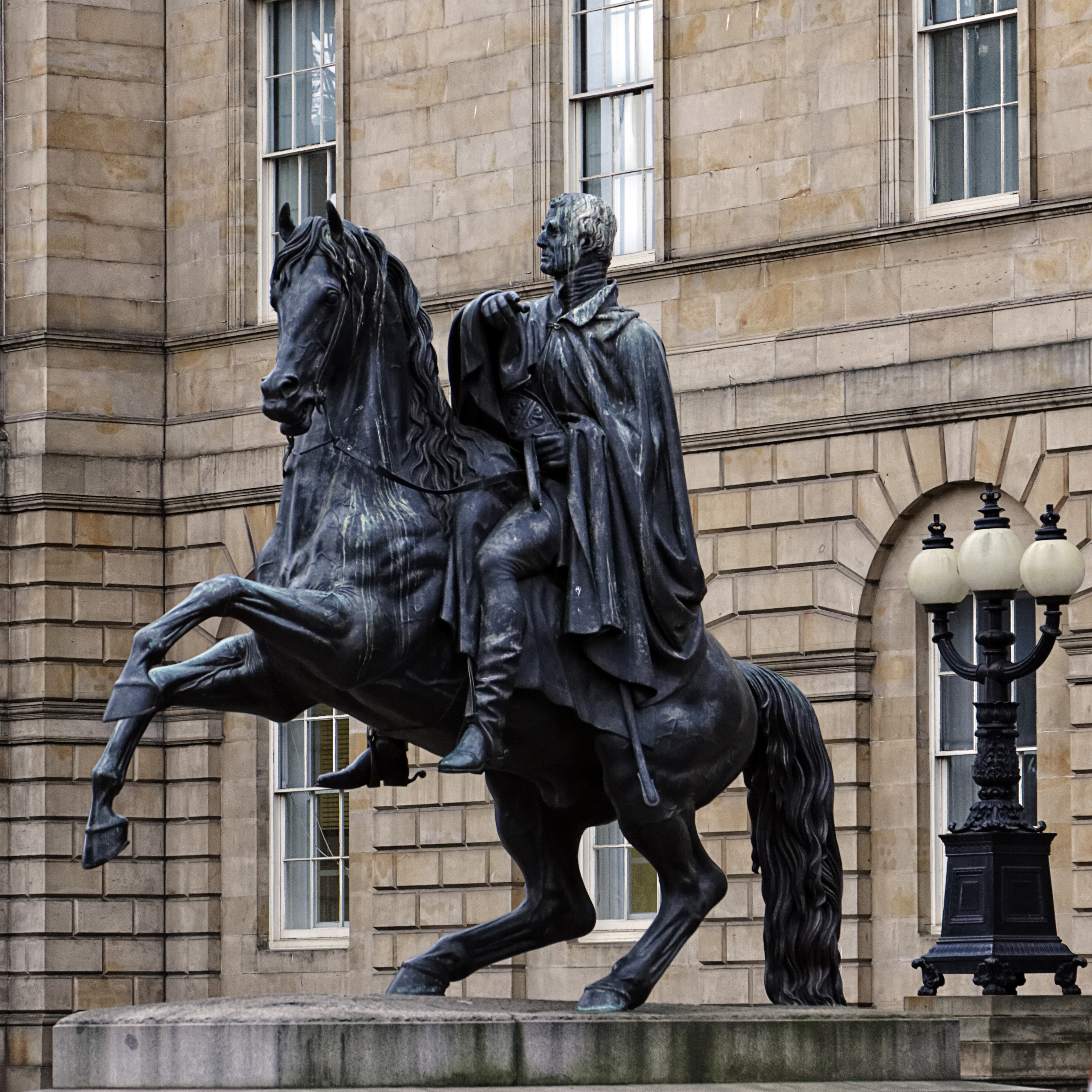 Sir John Steells equestrian statue of the Duke of Wellington - 'the iron Duke in bronze by Steell' Edinburgh 1852.